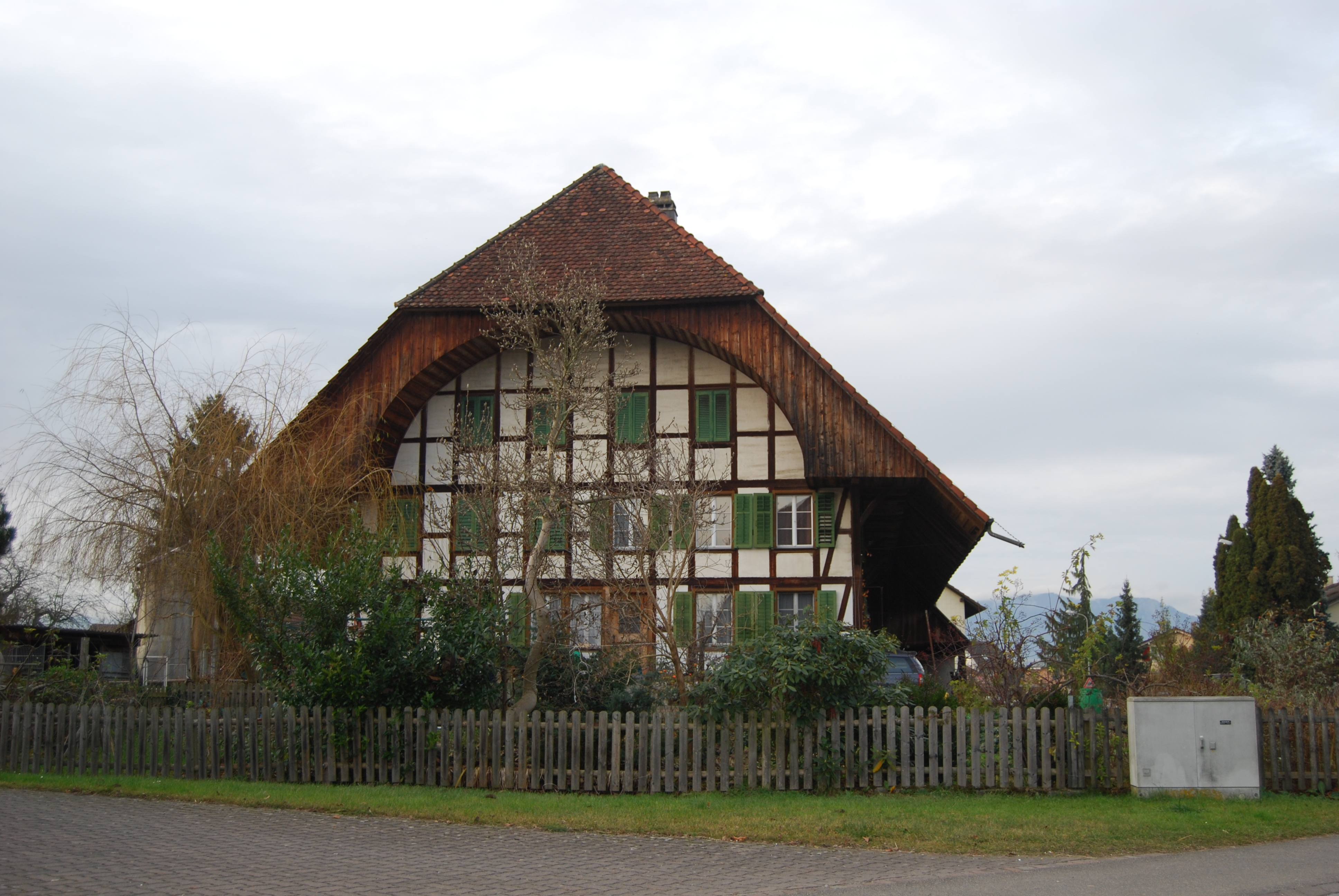 Timber framing at Recherswil, canton of Solothurn, Switzerland